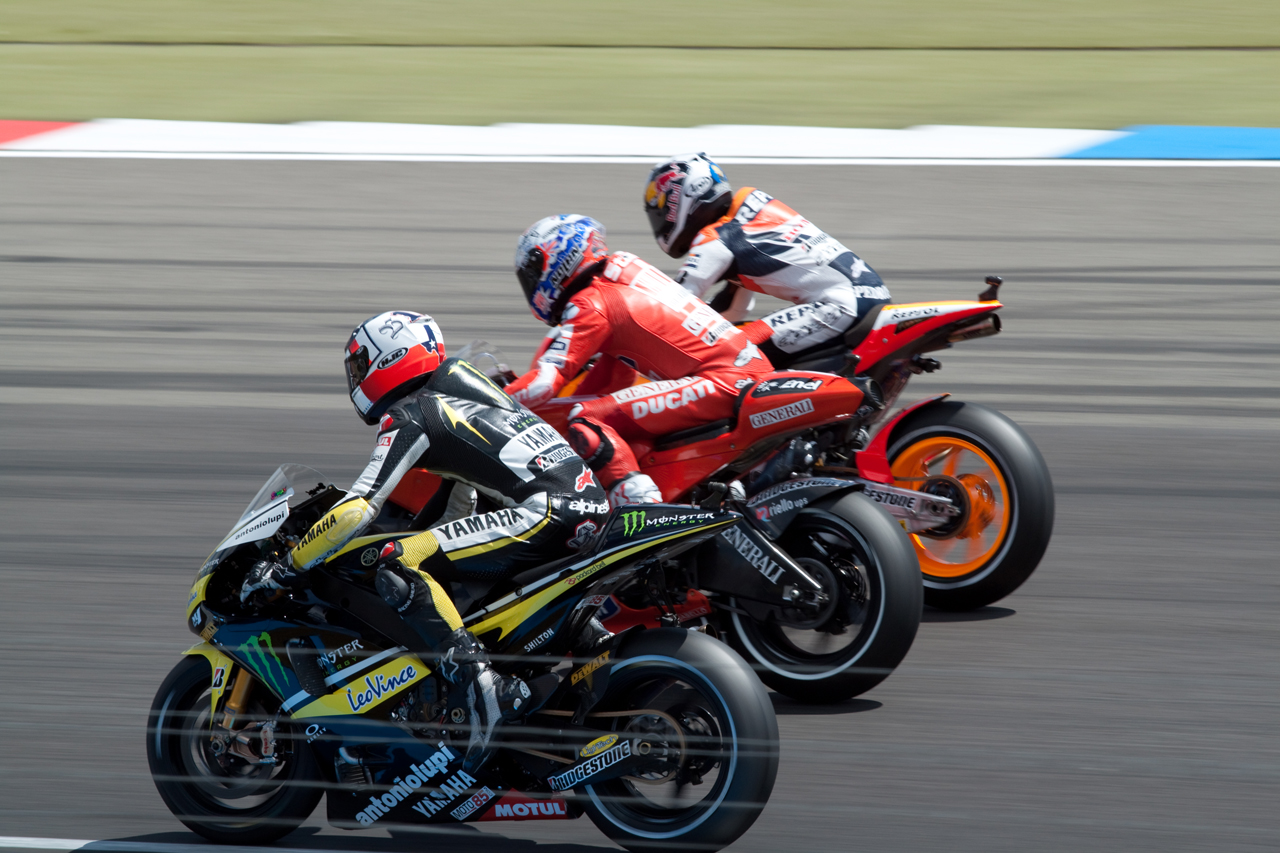 ben spies, casey stoner, dani pedrosa